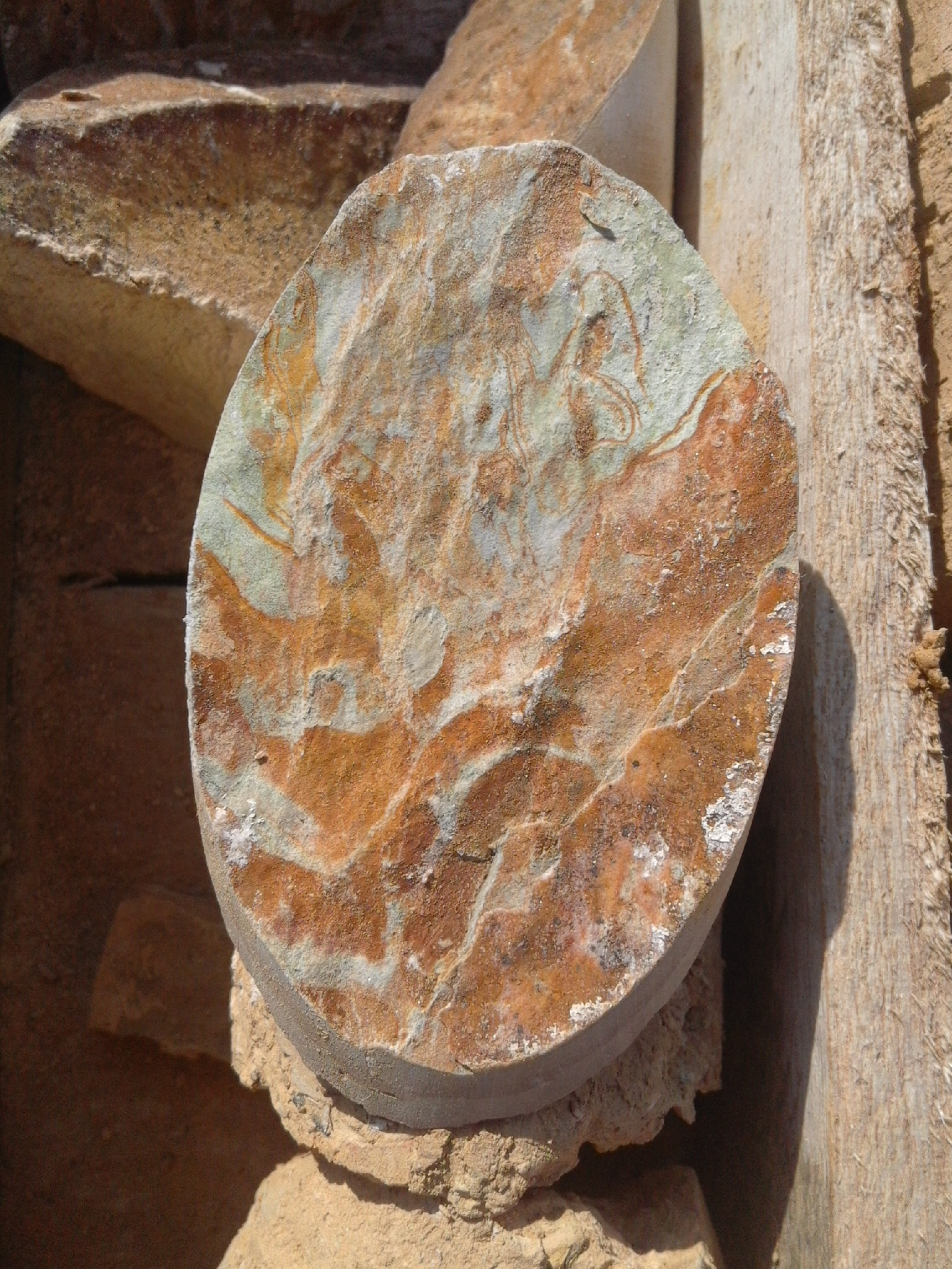 Red and green iron oxides on limestone drill core sample